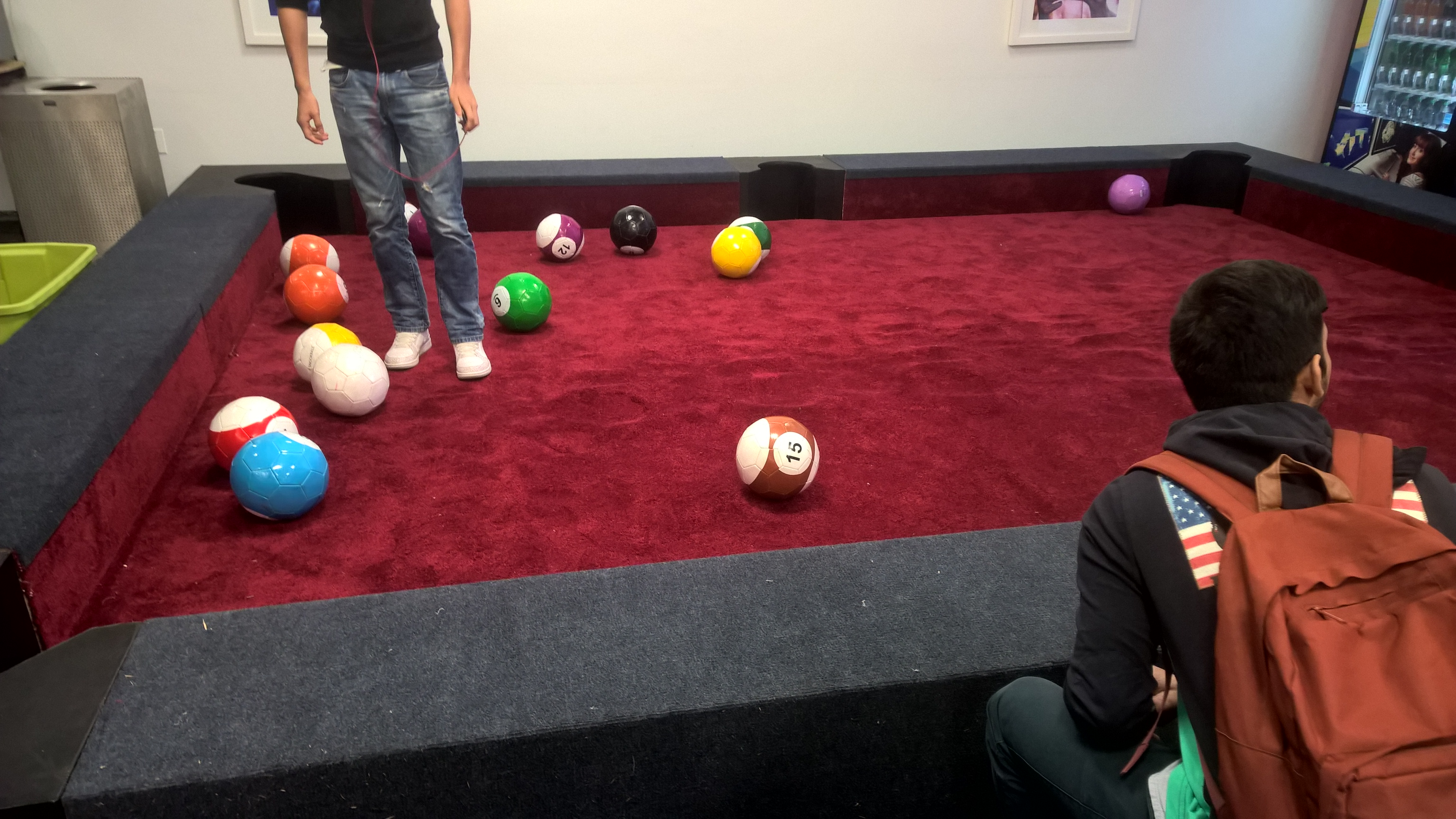 A large oversized pool(cue sports) playing area, that has oversized playing objects (balls) as well. Here users kick the white ball instead of using a regular stick. Image was taken at a student lounge in a college.